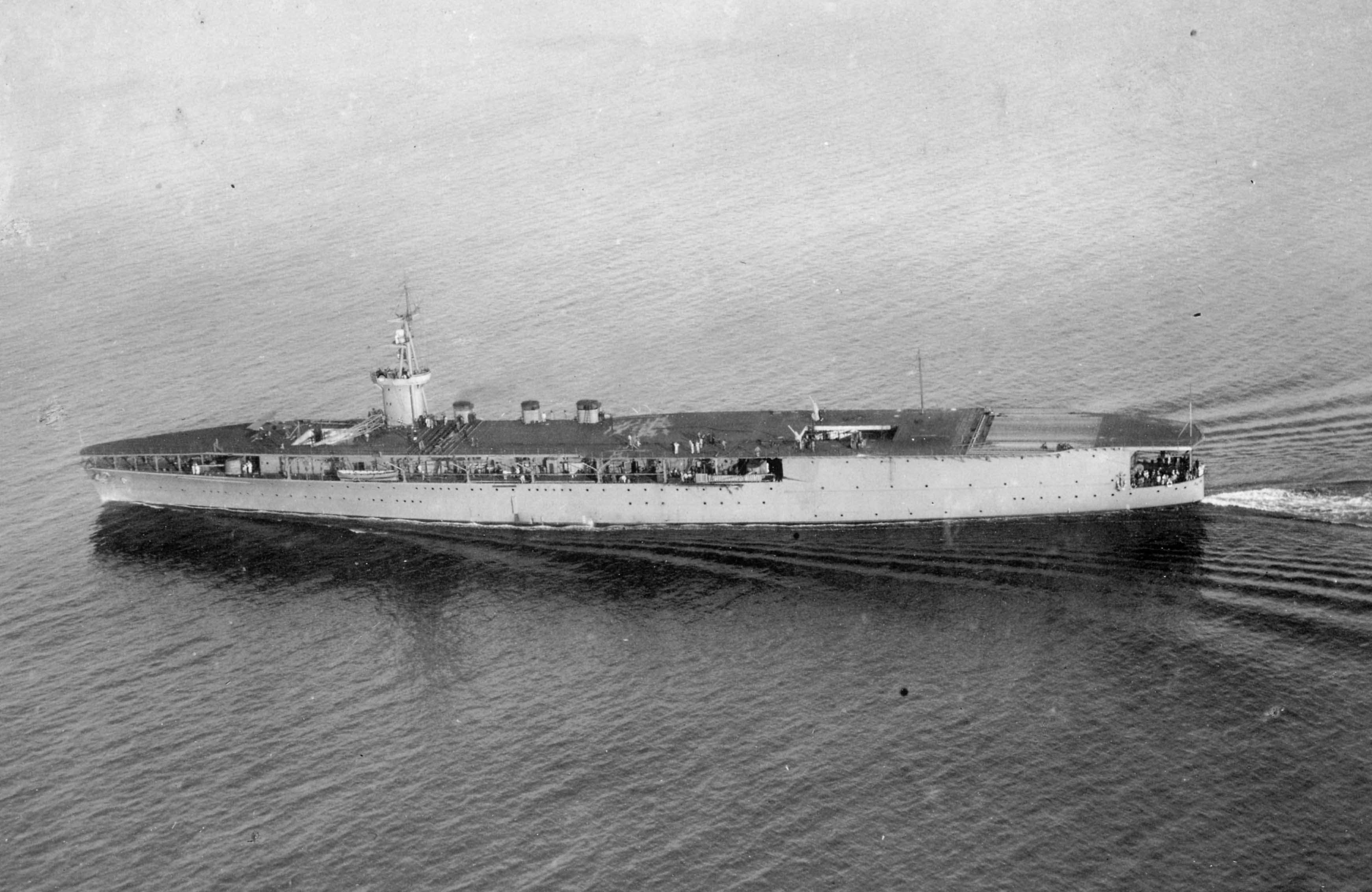 Japanese aircraft carrier Hōshō in Tokyo Bay